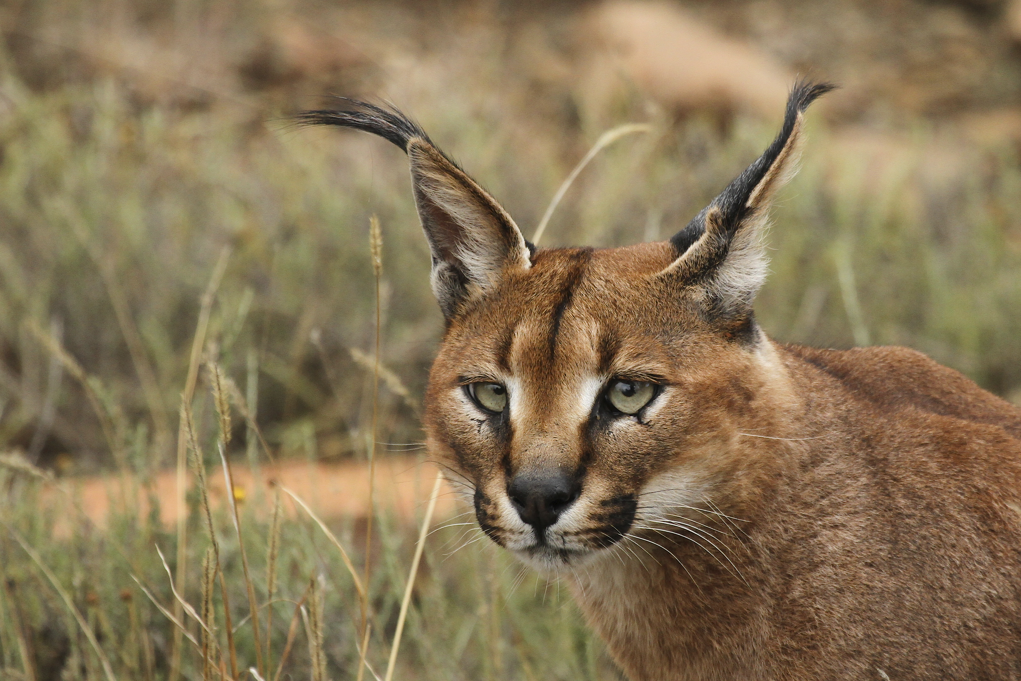 Caracal in Mountain Zebra Park, Eastern Cape, South Africa